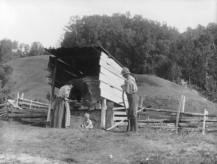 Photograph, Bake oven, Murray Bay, QC, 1898, Wm. Notman & Son, Silver salts on glass - Gelatin dry plate process - 20 x 25 cm